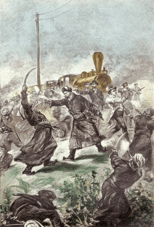 Ilustration of Léona Benetta to novel Claudius Bombarnac.